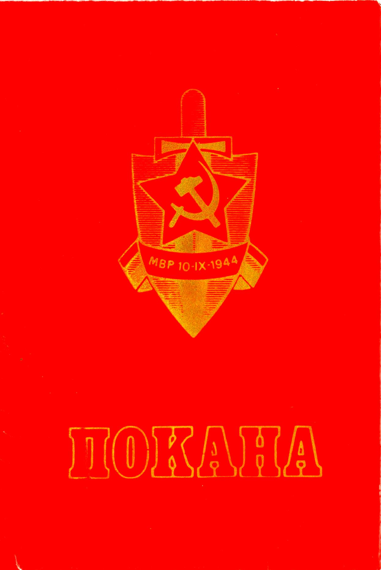 An invitation for the celebration of the 40th anniversary of the Ministry of Internal Affairs in People's republic of Bulgarian Brigade Movement in Razgrad on 13 December 1984